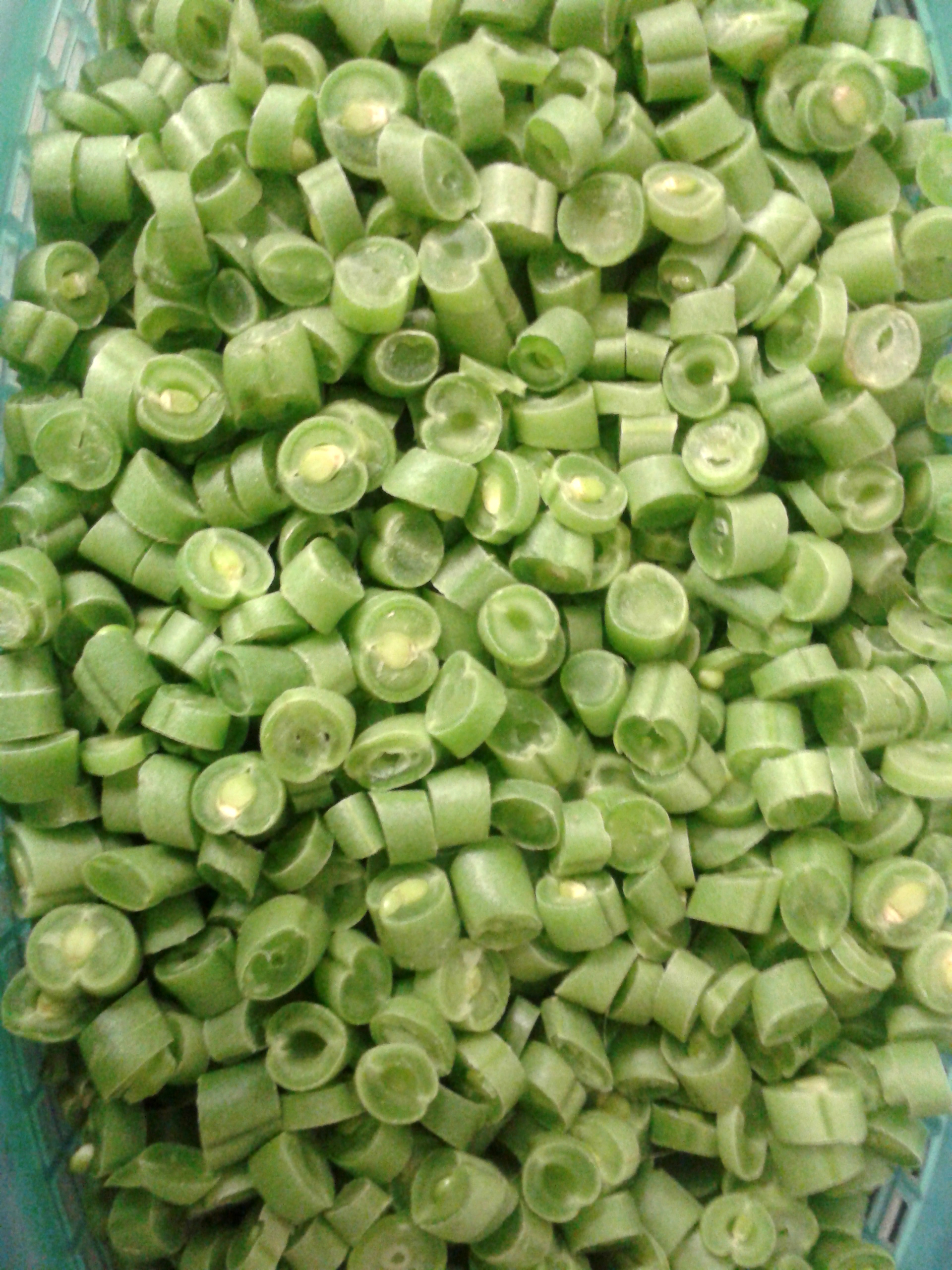 Chopped Green beans (family of Phaseolus) at Nizampet, Hyderabad